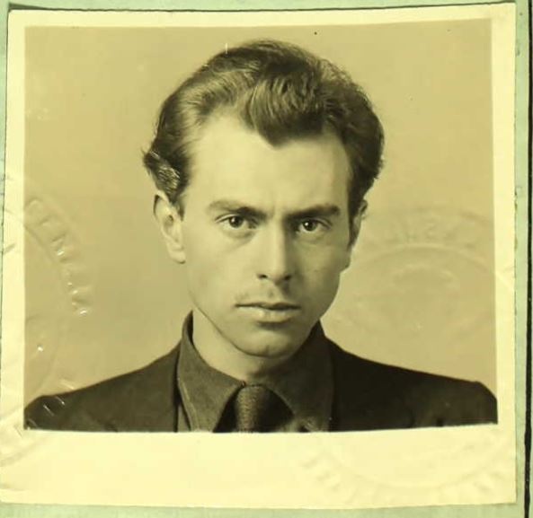 1923 United States Passport photograph of Harry Steele Savage.